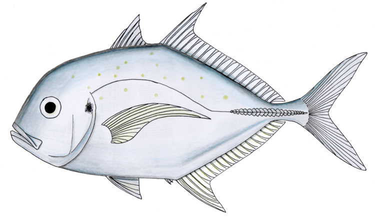 Hand drawn and coloured image of the coastal trevally, Carangoides coeruleopinnatus. Based on Carpenter et al (eds) 2002 and fishbase photographs